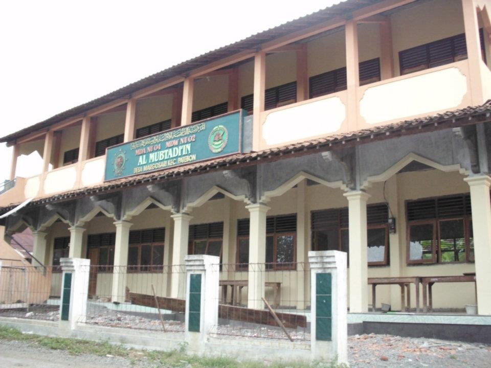 MDA Al Mubtadi'in Margosari Sebelah Barat